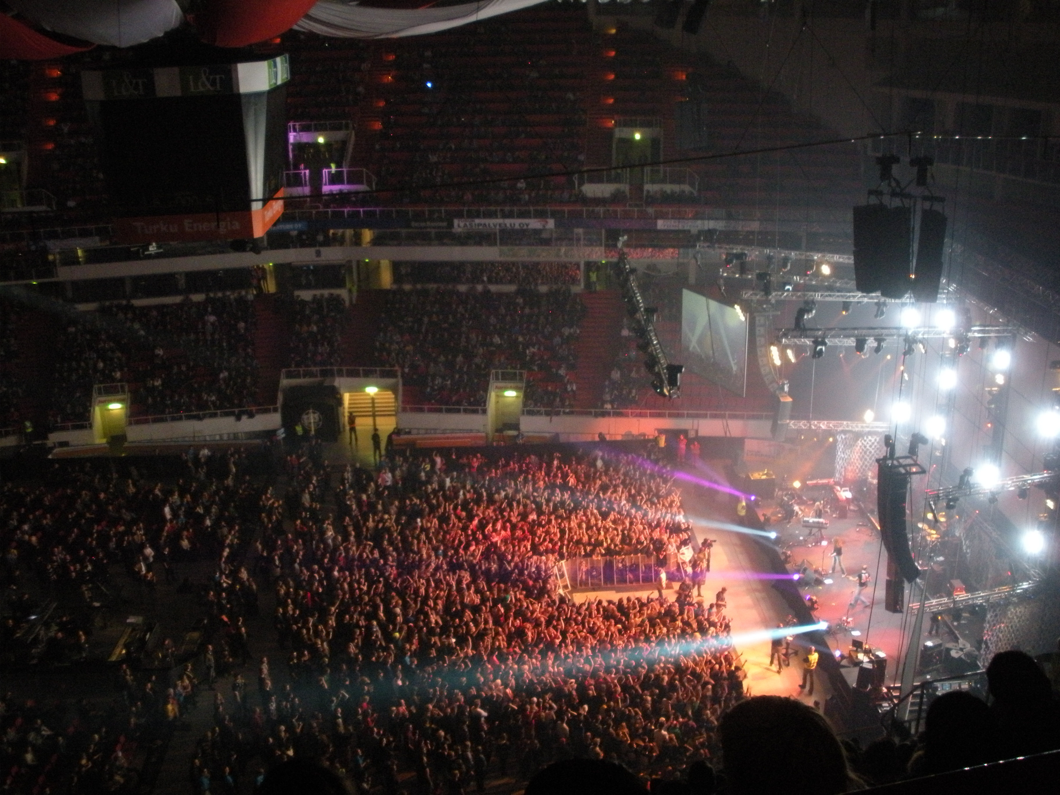 Maata näkyvissä -festival in november 2009